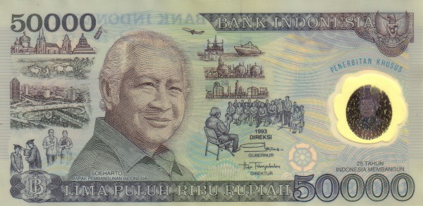 Indonesian currency issued 1976-2000.